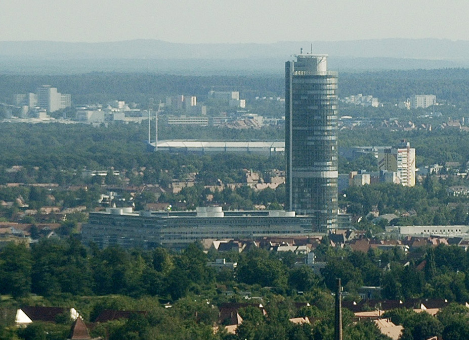 Aerial photography from distance of Business Tower in Nuremberg, Germany